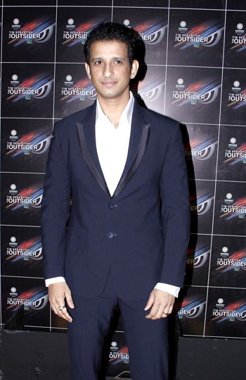 Indian actor Sharman Joshi at 'The Outsider' launch party